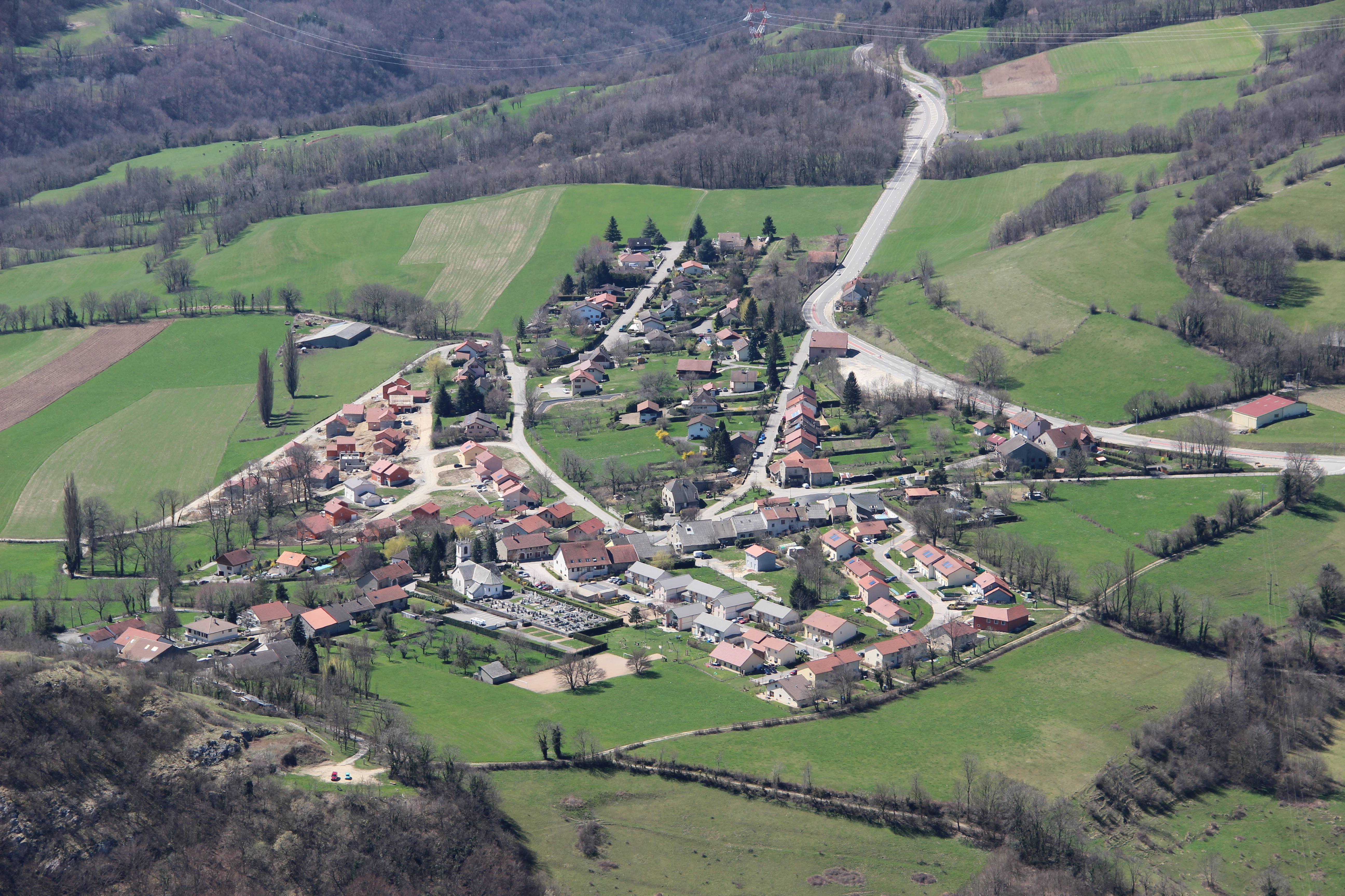 View onto Léaz from the Vuache